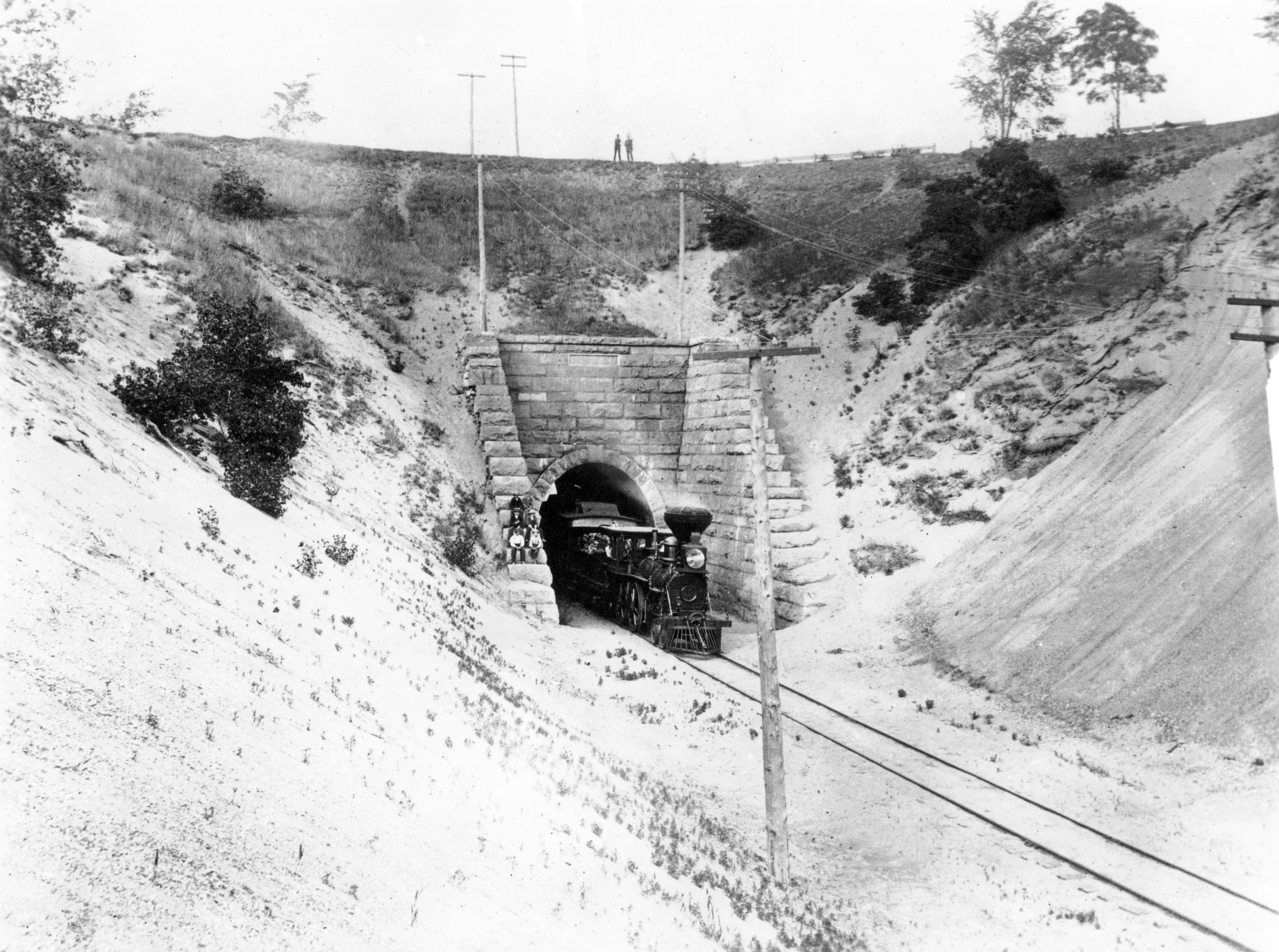 This image shows the Central Vermont Railroad (C.V.R.R.) tunnel under North Avenue in Burlington, Vermont. A train engine can be seen passing through the tunnel. A few people (possibly children) are sitting on the tunnel face.